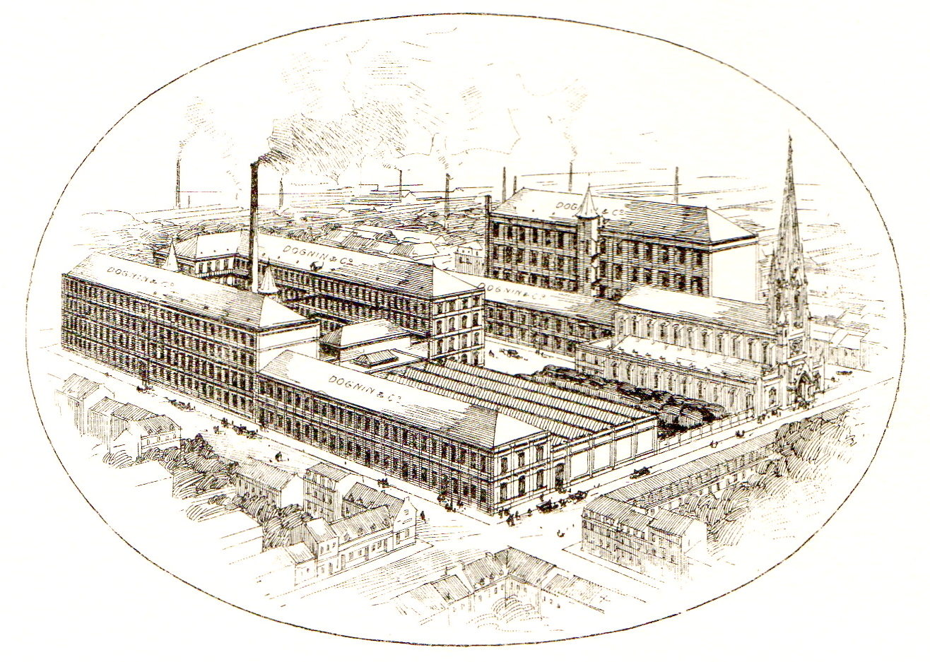 Dognin's Factory in Calais